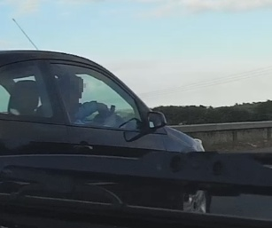 Driver texting while traveling at approximately 70mph! Image taken from my dash-cam. I first spotted the car weaving in and out of their lane, and driving erratically. Using a phone while driving BADLY affects your judgement! The person's face has been pixelated for legal reasons